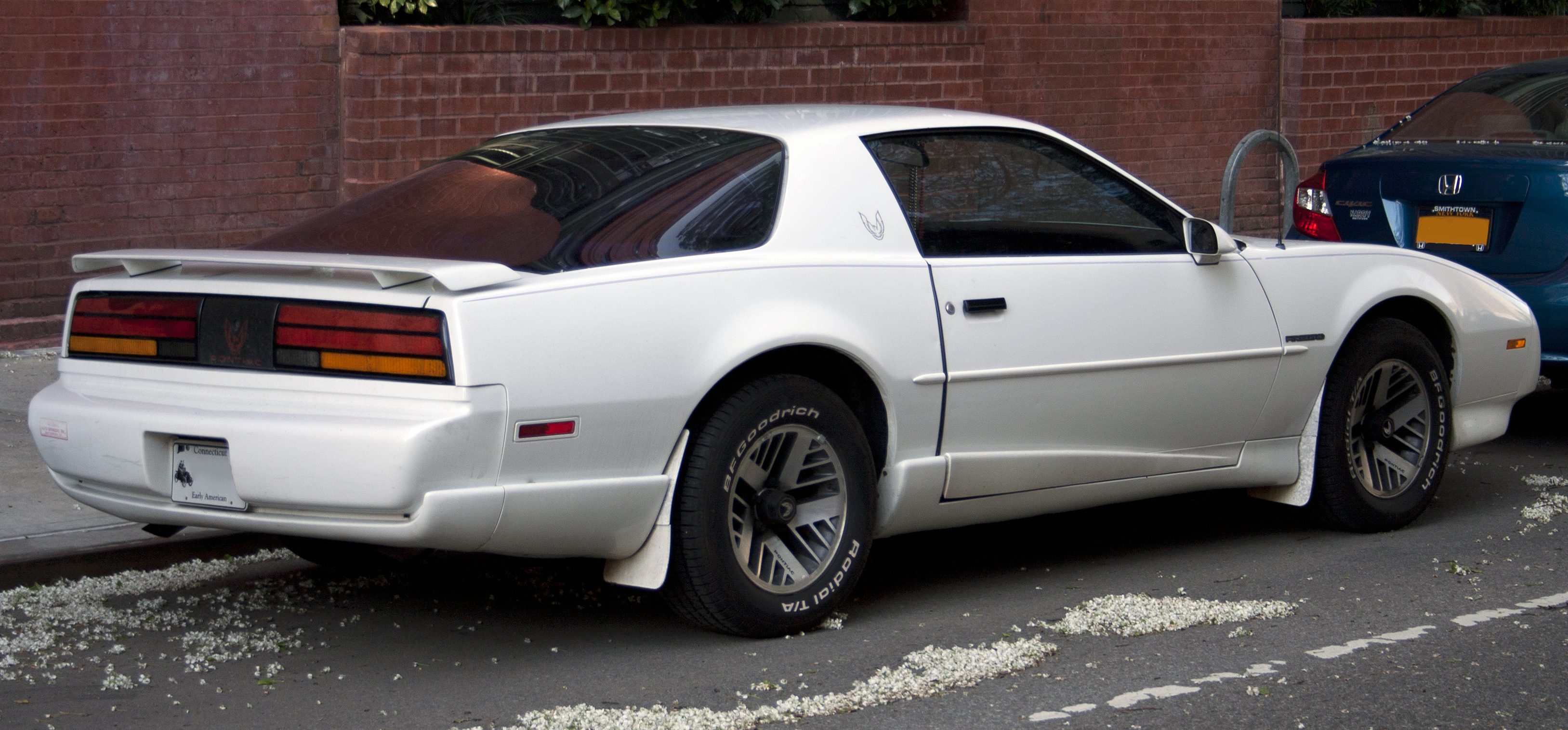 1992 Pontiac Firebird base with the 3.1 "LHO" V6 engine (last year for the third generation)